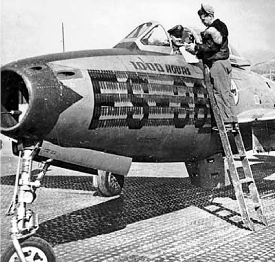 U.S. Air Force Captain John McMahn and Sergeant White of the 182nd Fighter-Bomber Squadron, Texas Air National Guard, close out flight records at Taegu Air Base, South Korea, following their Republic F-84E-15-RE Thunderjet (s/n 49-2360, nicknamed "Miss Jacque II") becoming the first such aircraft to complete 1,000 flying hours, 1952. Note the mission markers.